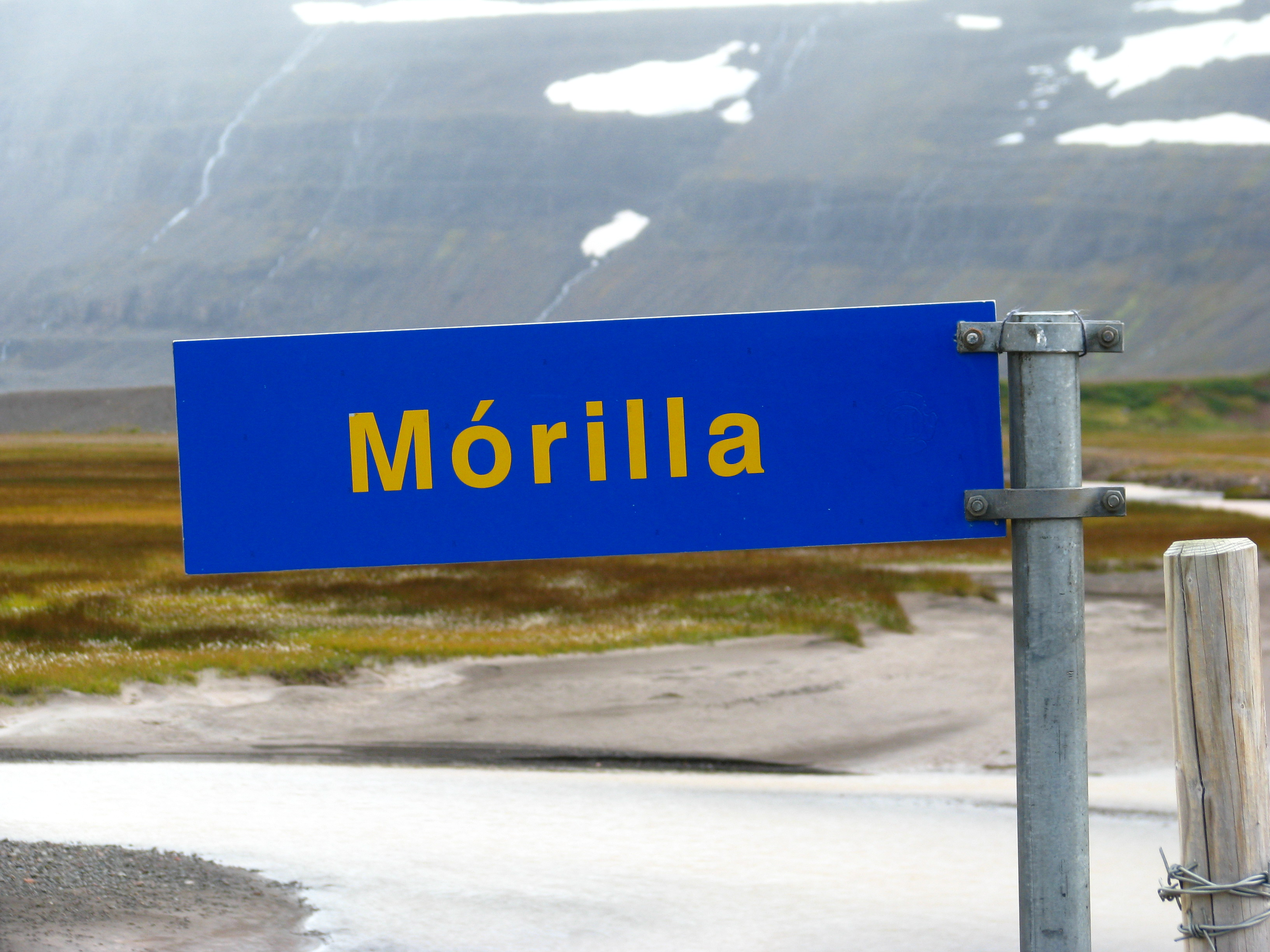 Sign with geographic information in Iceland